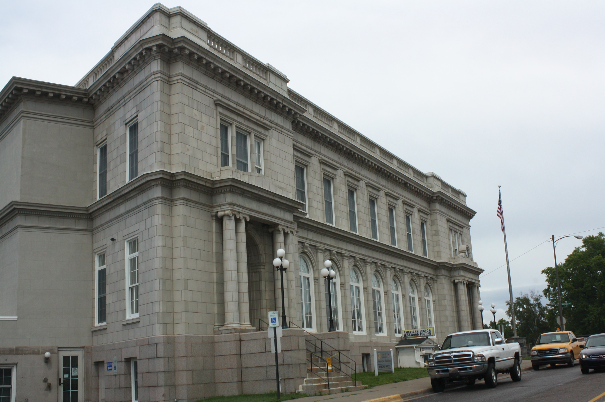 Sideview of the Memorial Building